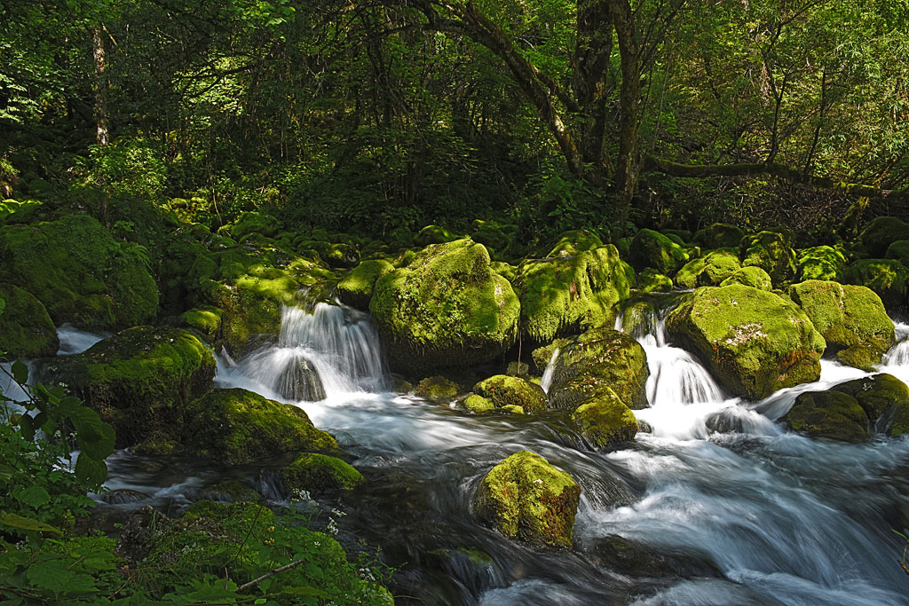 Strong water stream of Gljun creek is soon captured for the purposes of a small power plant.